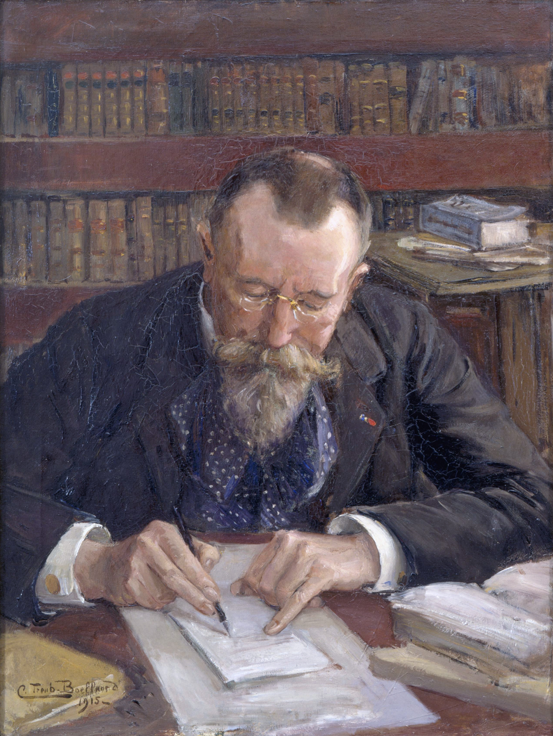 Hector Treub (1856-1920) oil on canvas 73.5 x 55.5 cm signed b.l.: C. Treub-Boellard / 1915